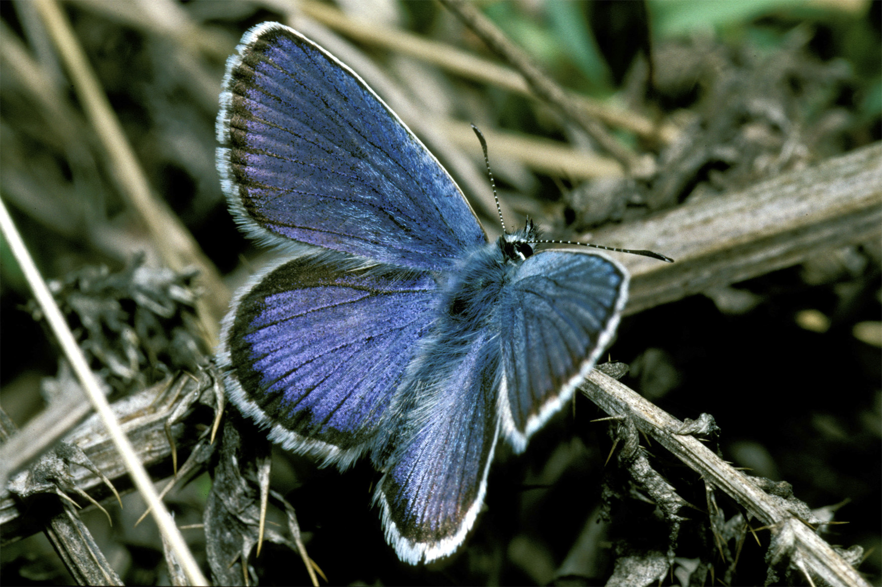 Male Silver-studded Blue (Plebeius argus)